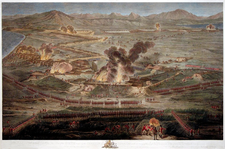 'The Sortie' of the Garrison of Gibraltar